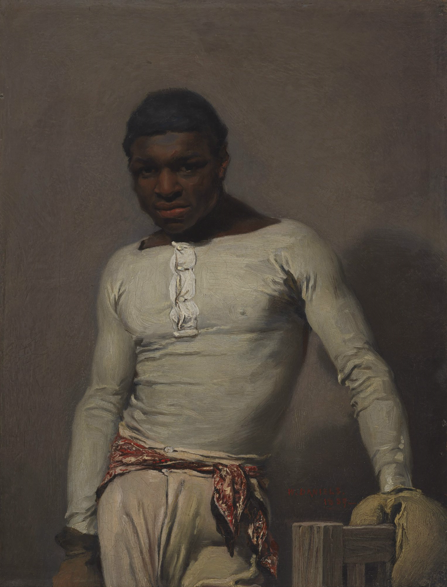 Potrait of boxer James "Jem" Wharton